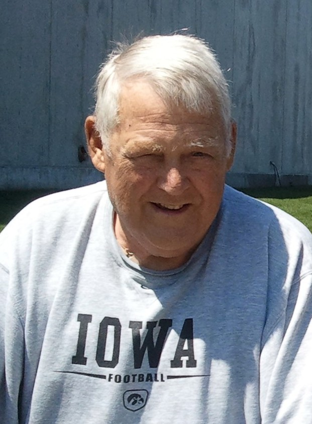 A photo taken of (with) Norm Parker outside Kinick Stadium in Iowa City on 8-11-2012